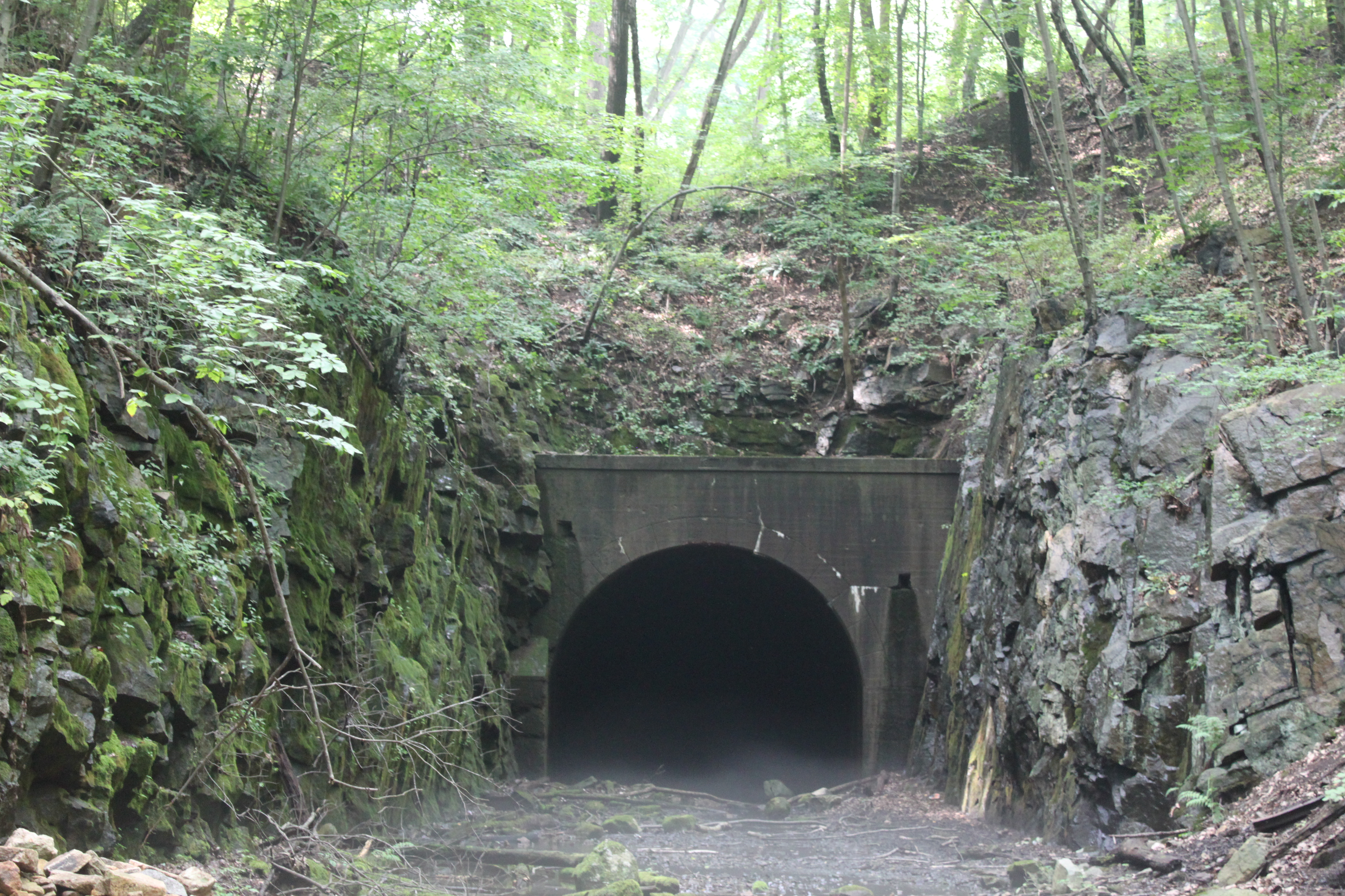 Eastern portal of Van Ness Gap Tunnel near Oxford, New Jersey.